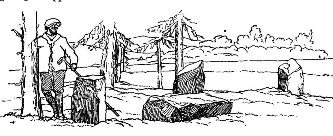 North Strone stone circle, Aberdeenshire sketch by Frederick Coles, 1902